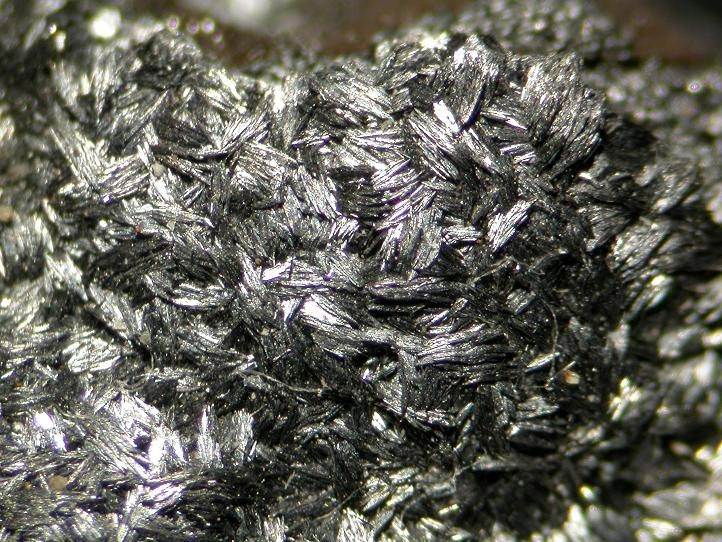 Pääkkönenite Locality: Kermesite occurrence, Dafeng, Shanglin County, Nanning Prefecture, Guangxi Zhuang Autonomous Region, China (Locality at ) Grey metallic crystals of Pääkkönenite. Field of view 5 mm. Specimen and photo Leon Hupperichs.